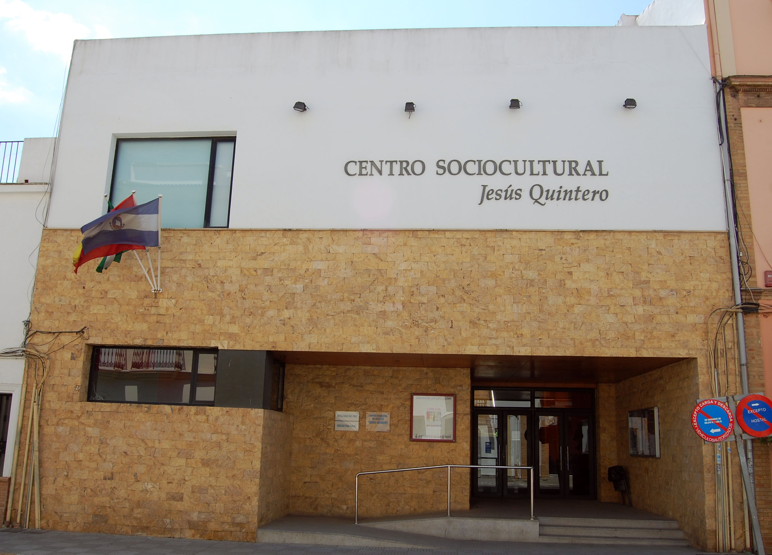 Jesus Quintero Cultural Center in San Juan del Puerto, Huelva